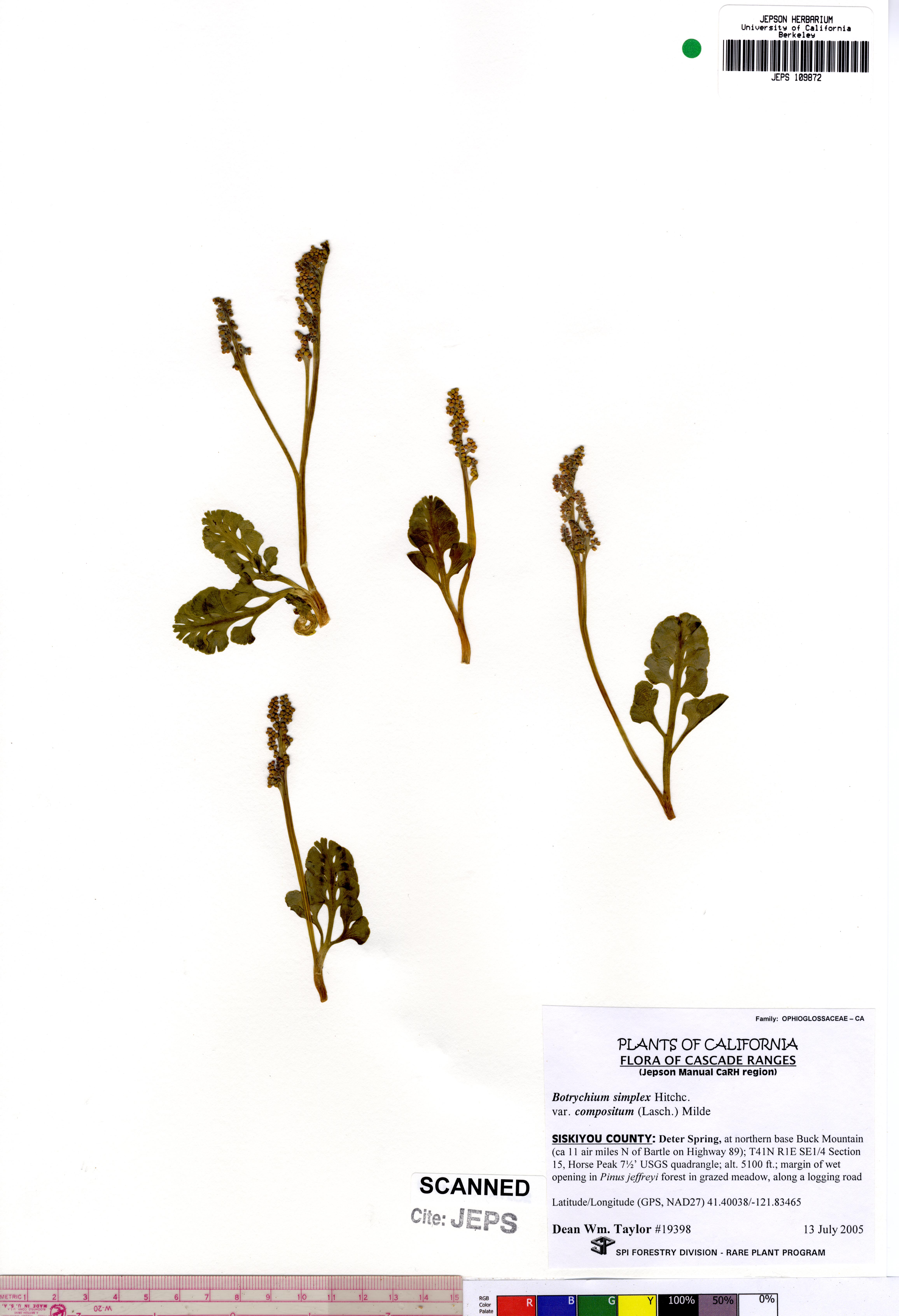 Botrychium simplex var. simplex JEPS109872